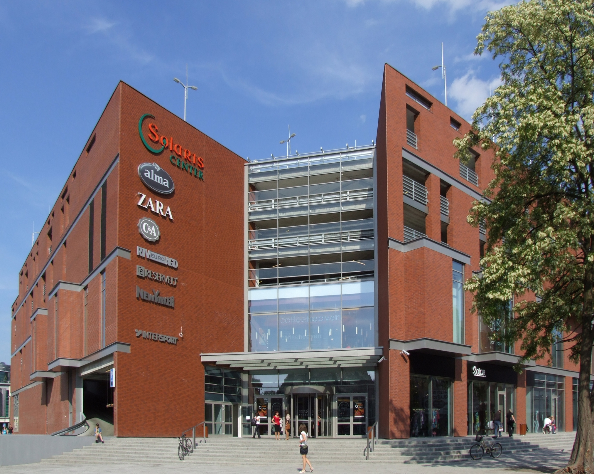 Solaris Center in Opole (Oppeln) - main entrance